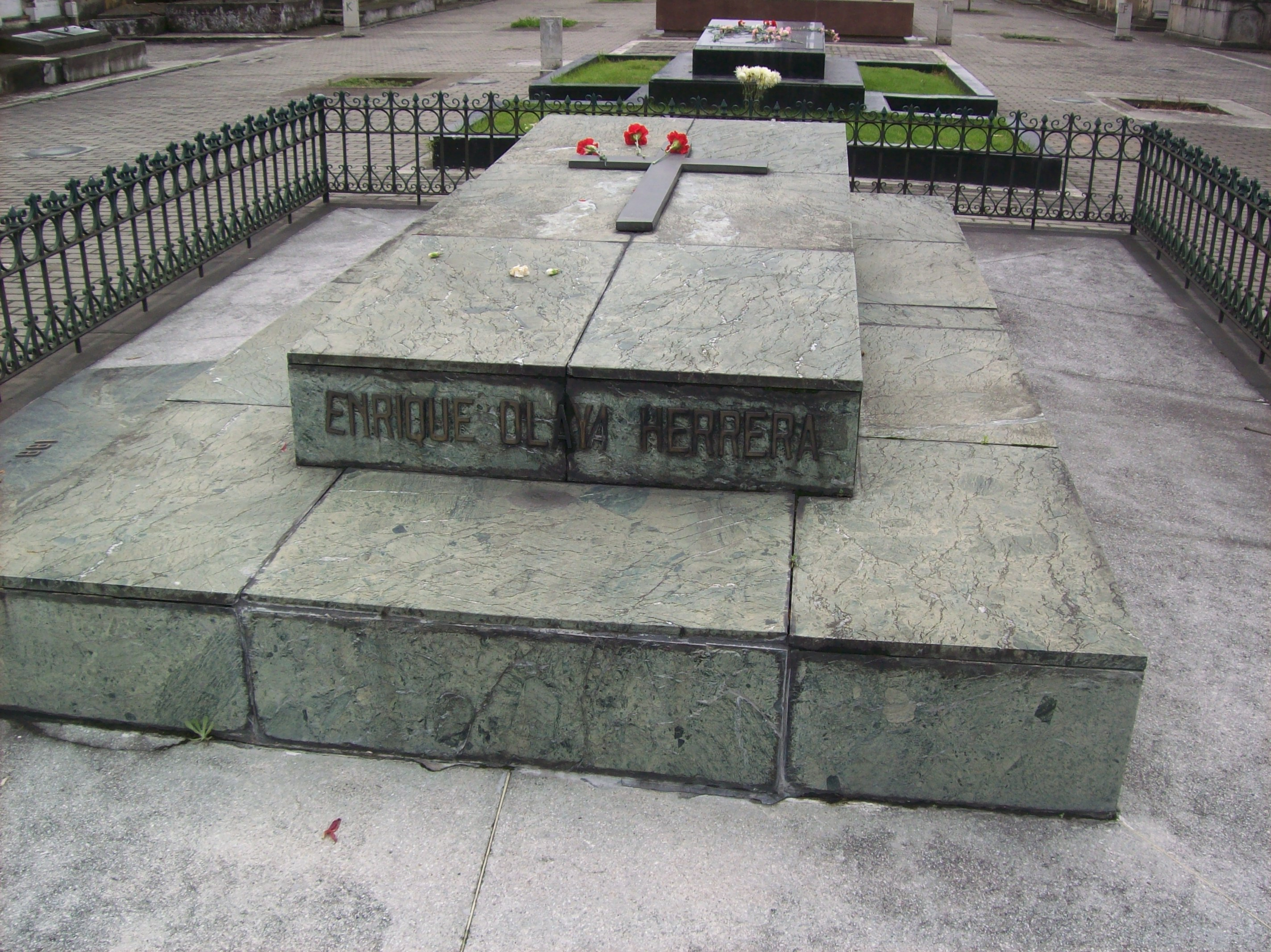 Tomb of Enrique Olaya, former president of Colombia